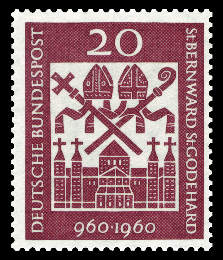 1000th day of birth of the bishops Bernward (960–1022) and Godehard (960–1038)